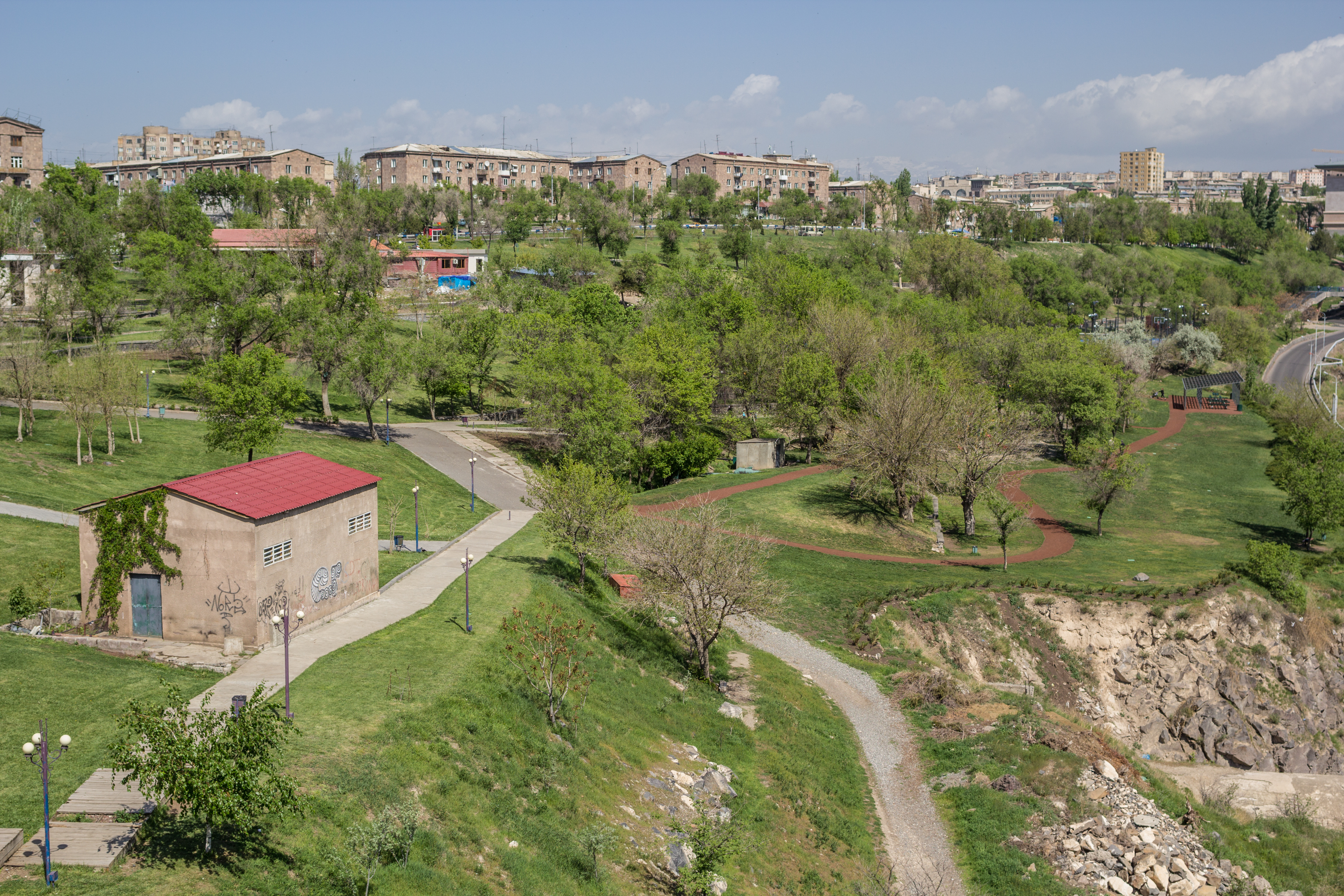 Tumanyan Park on Halabian Street in Yerevan, Armenia.